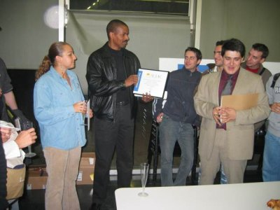 From left to right: Angela Caicedo (Sun Evangelist), Reginald Hutcherson (Java Technology Evangelist Team), Jordi Pujol (President of Aujac)